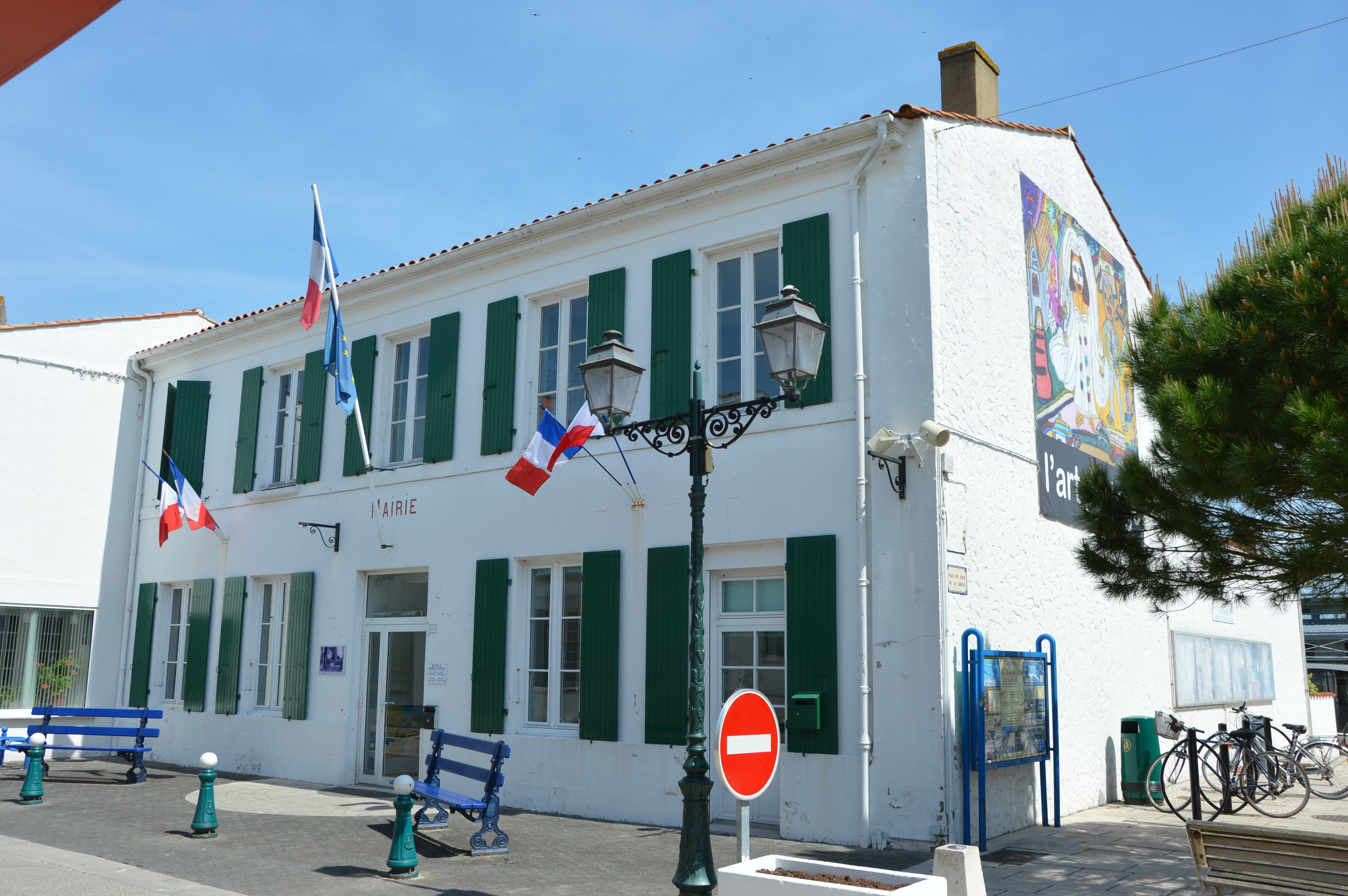 The town hall of Saint-Trojan-les-Bains, France.